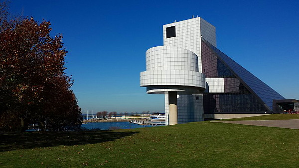 The Rock and Roll Hall of Fame in Cleveland, OH in November 2015. By LHCollins.